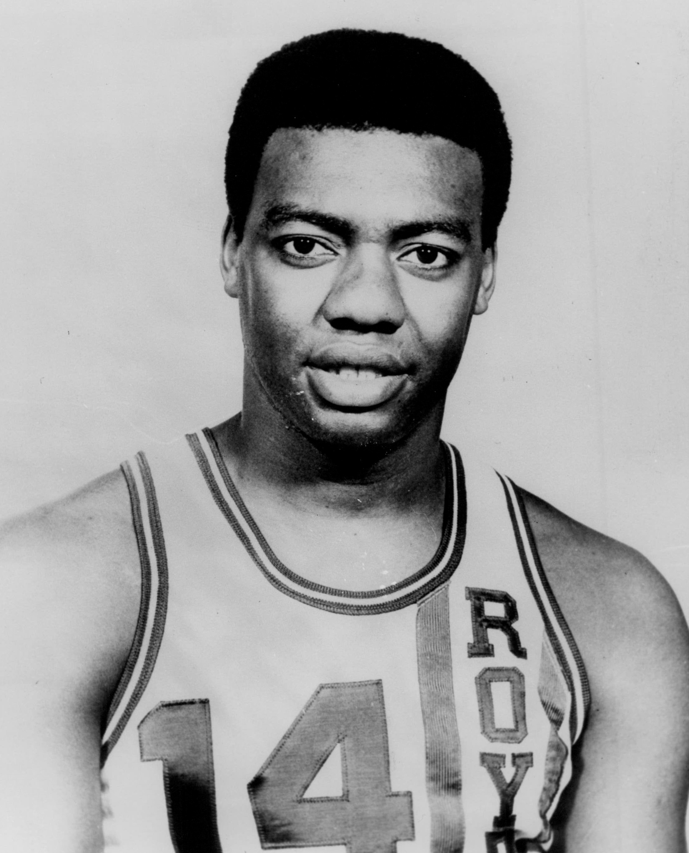 Professional basketball player Oscar Robertson